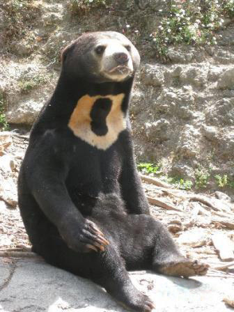 One of Wellington Zoo's sun bears relaxes in the afternoon sun.